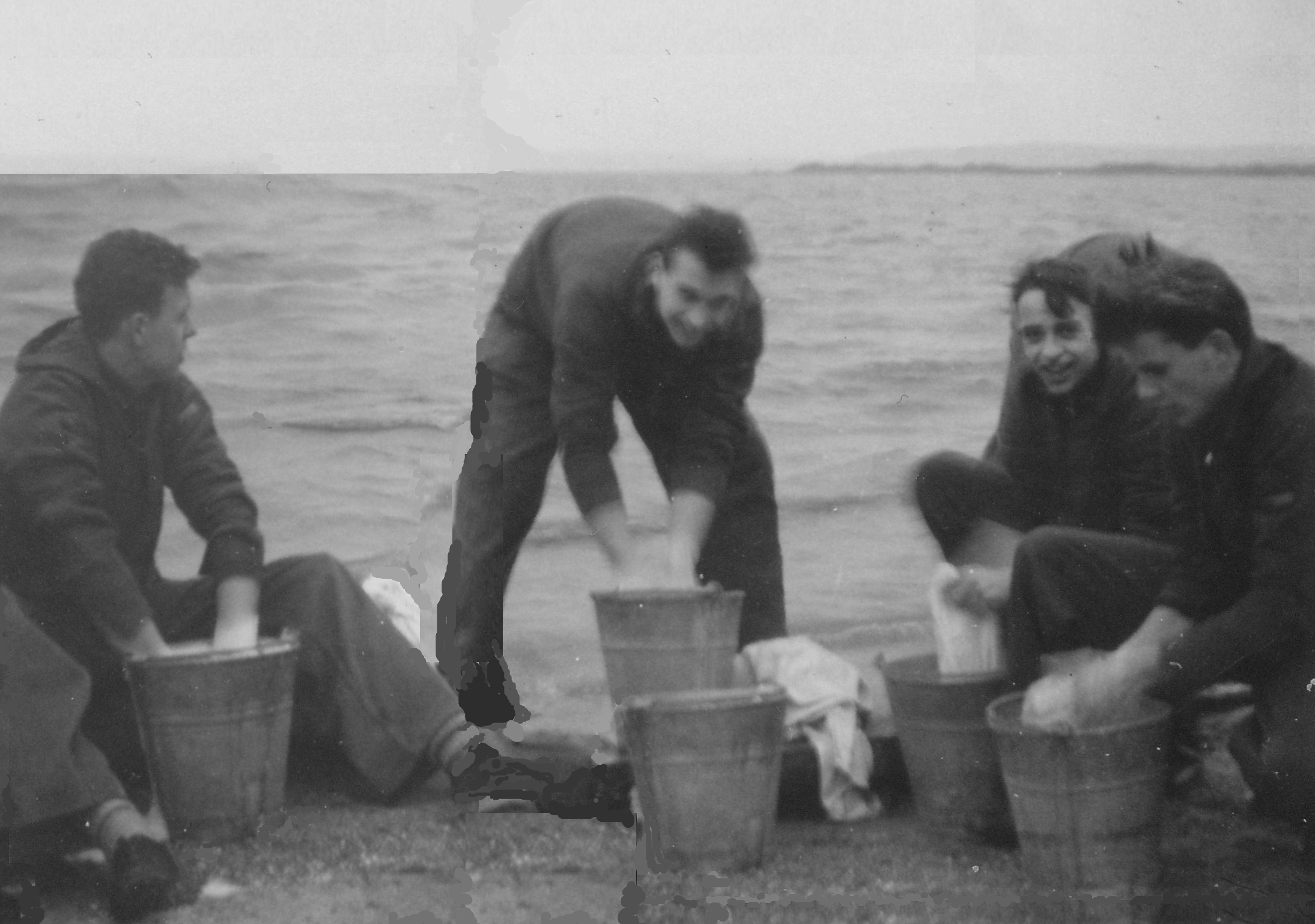 Dobbying at seaman's shool Travemünde-Priwall - 1955